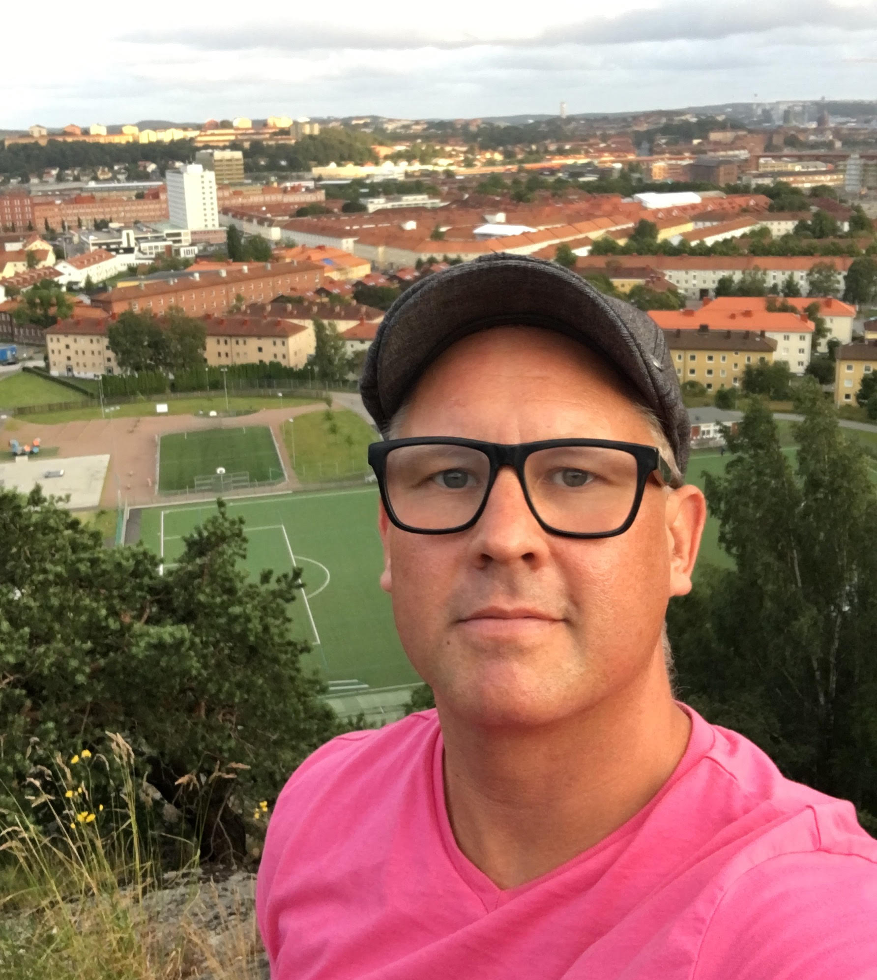 Journalist and author Robert Laul in Gothenburg